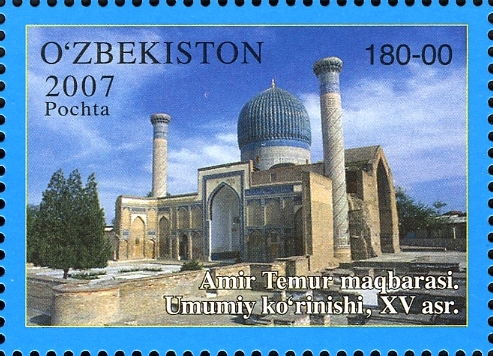 Stamps of Uzbekistan, 2007